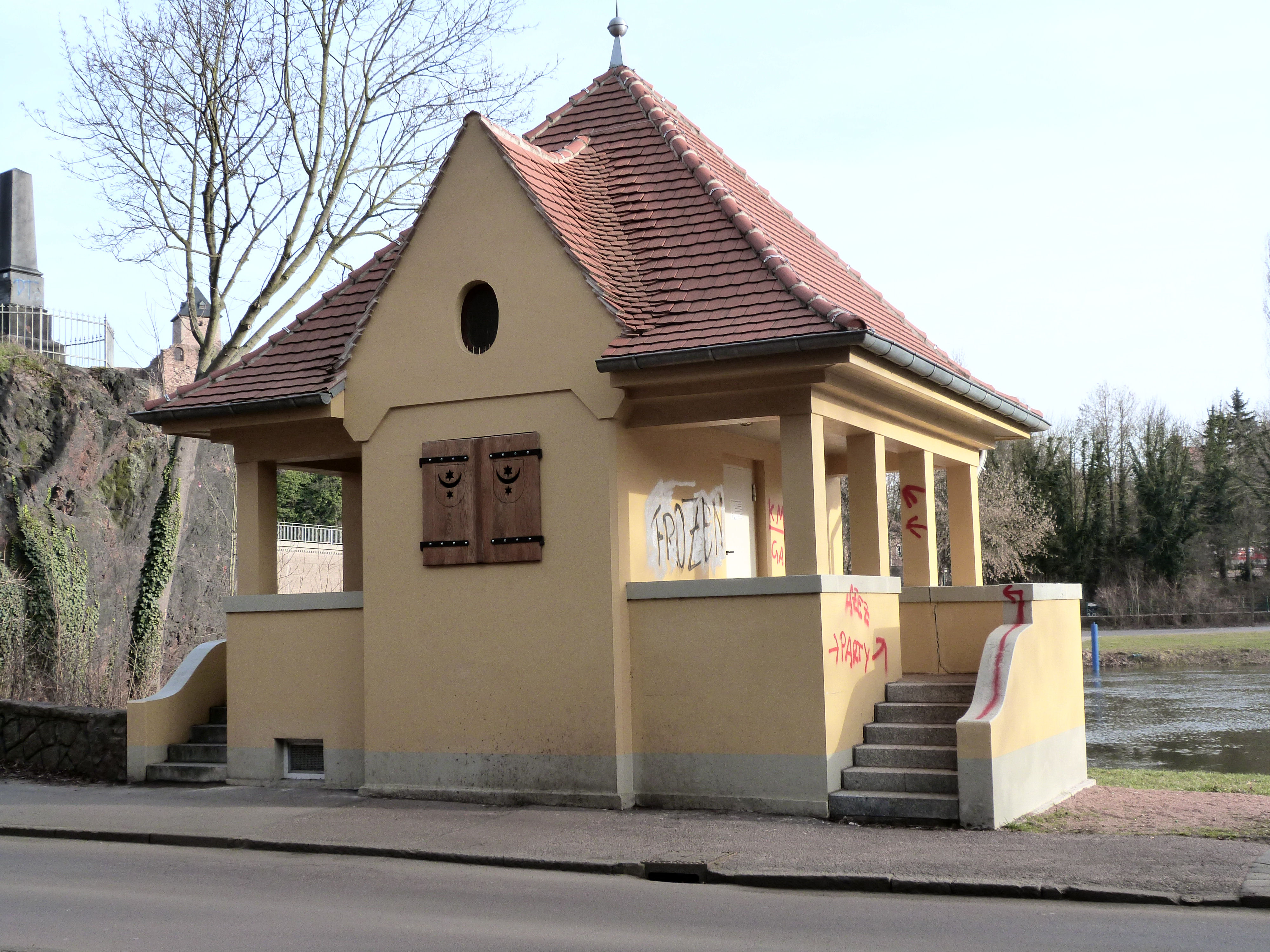 Pumphouse in the Talstrasse, Halle (Saale)